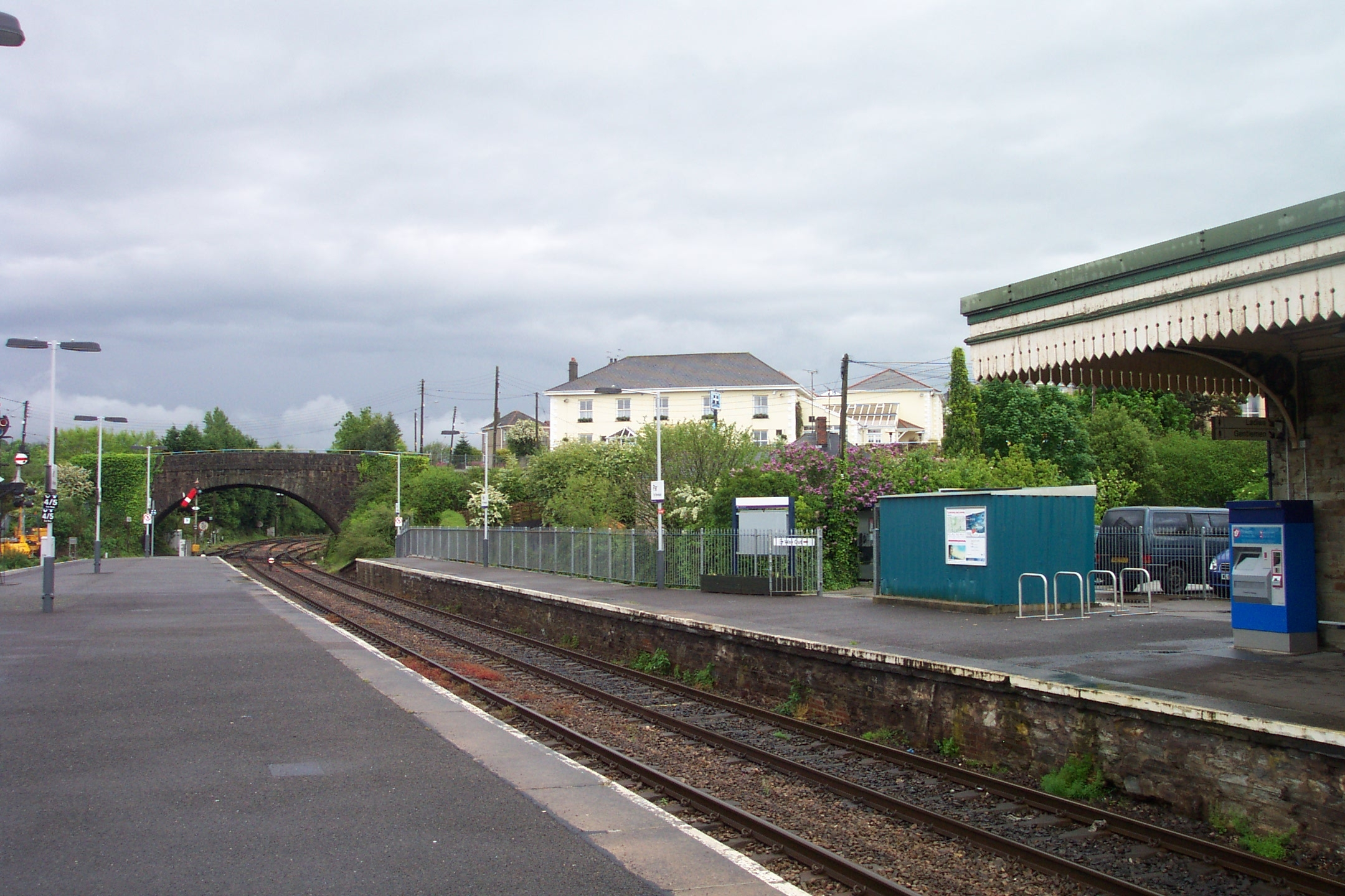 Par railway station looking towards London. The Royal Inn can be seen adjacent to the railway bridge. For more information see the Wikipedia article Par railway station.